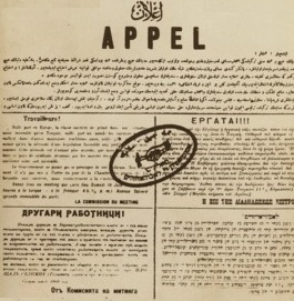 Appeal from Workers Meeting